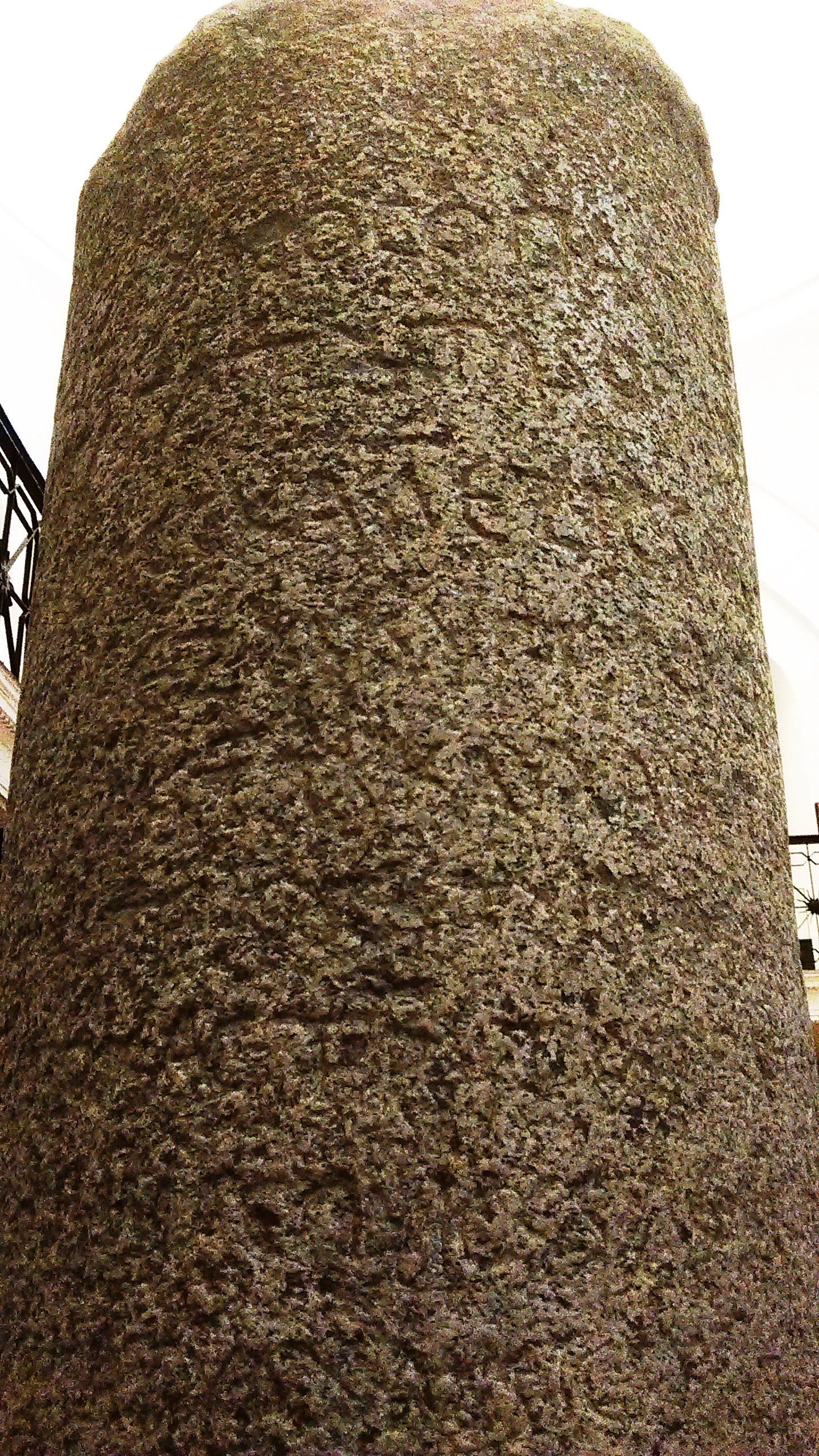 Column fragment with inscription about the victorious campaigns of Khan Malamir (831-836), Shumen, now in the National Archaeological Museum in Sofia